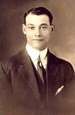 Photograph of Canadian soldier George Lawrence Price, who was the last British Empire soldier killed in World War I, on 11th November 1918 at Ville-sur-Haine in Belgium.